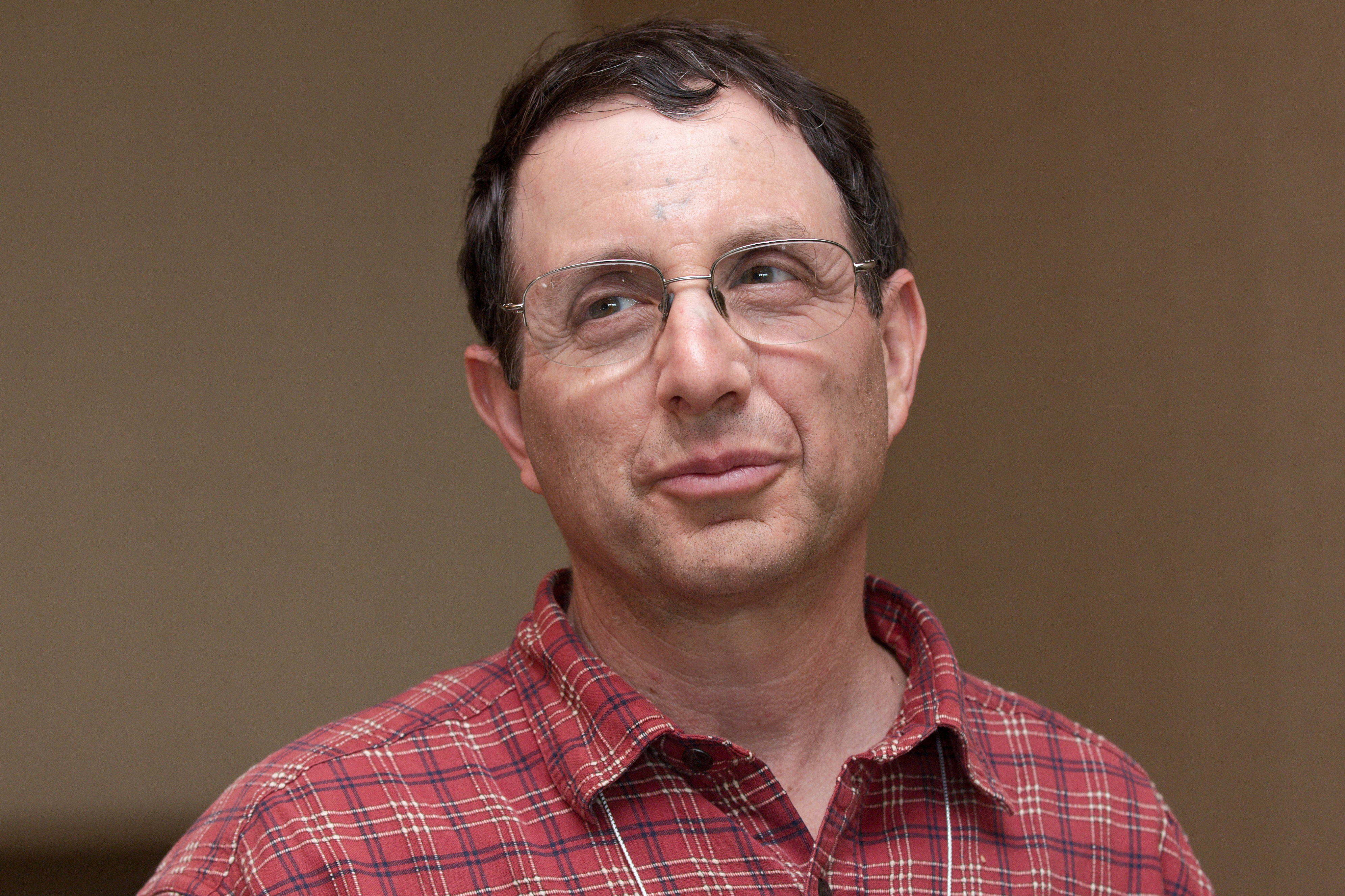 Computer science researcher Neil Immerman of the University of Massachusetts, Amherst at the Open Source Quality retreat, in the Seaside View room of the Dream Inn in Santa Cruz, California.